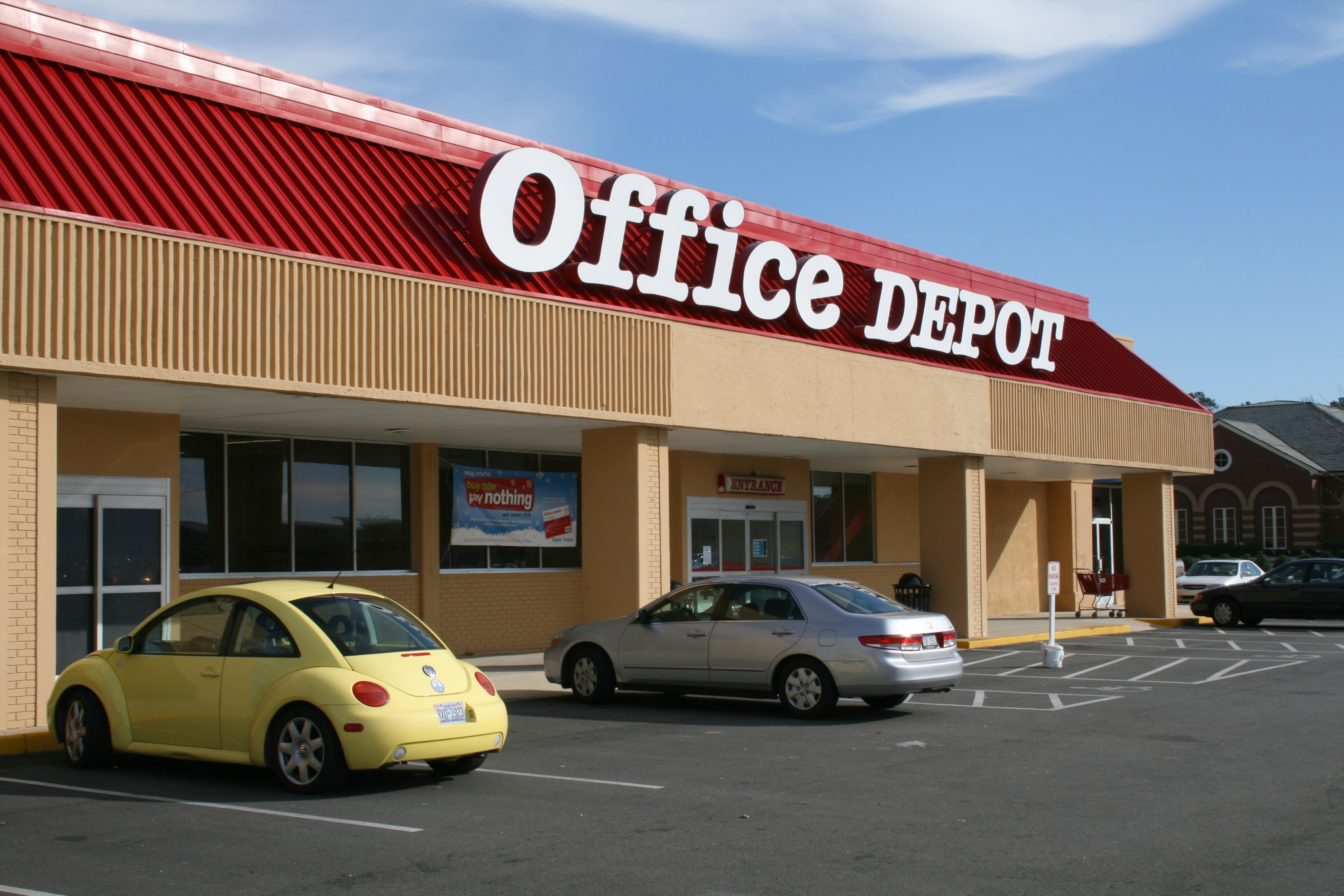 Office Depot at 4001 Durham-Chapel Hill Boulevard in Durham, North Carolina.